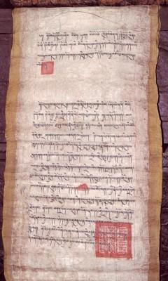 Legal Document of Lozang Gyatso (1617 - 1682) Fifth Dalai Lama (1676)